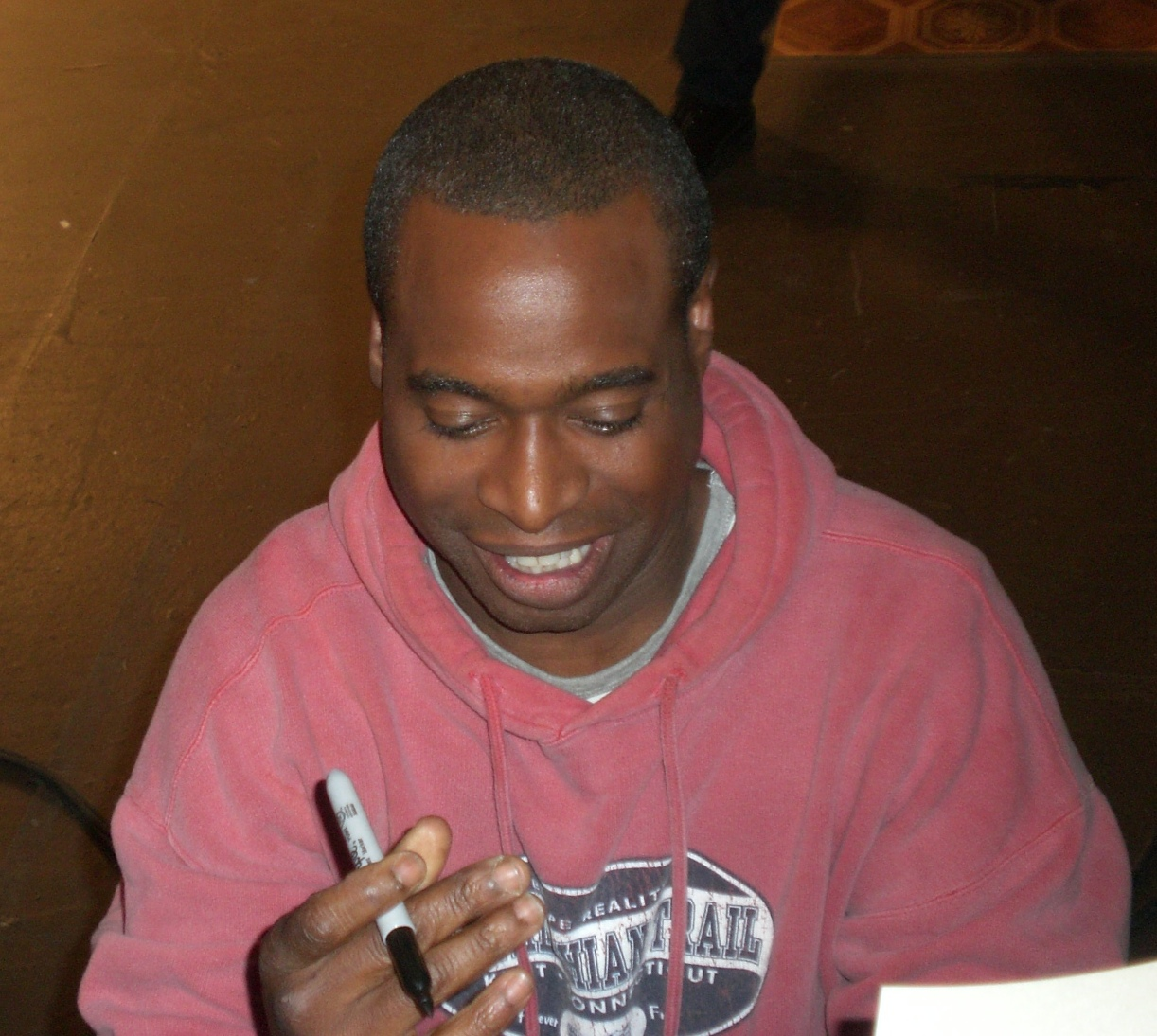 Phill Lewis signing autographs at The Suite life of Zack & Cody Taping